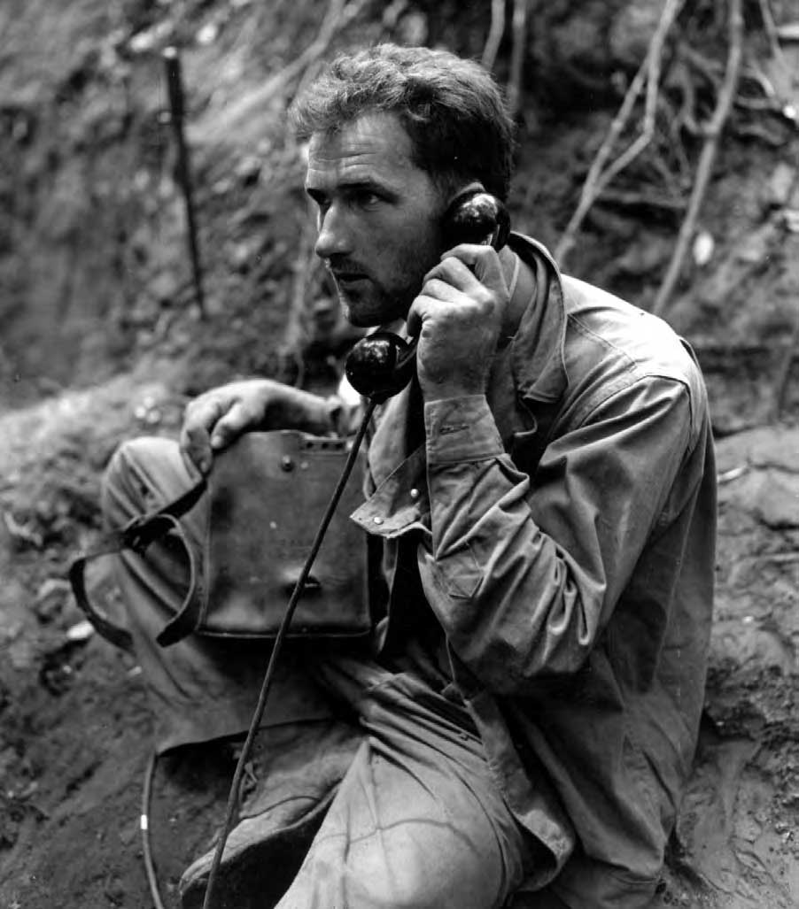 Solomon Islands: Field telephone, still in working order after being hit by a shell fragment when a Japanese “knee-mortar” shell landed six feet away. In the absence of reliable radio communications, wire communications were heavily relied upon. The EE–8 field telephone and the sound-powered telephone were used for long and short distances, respectively.